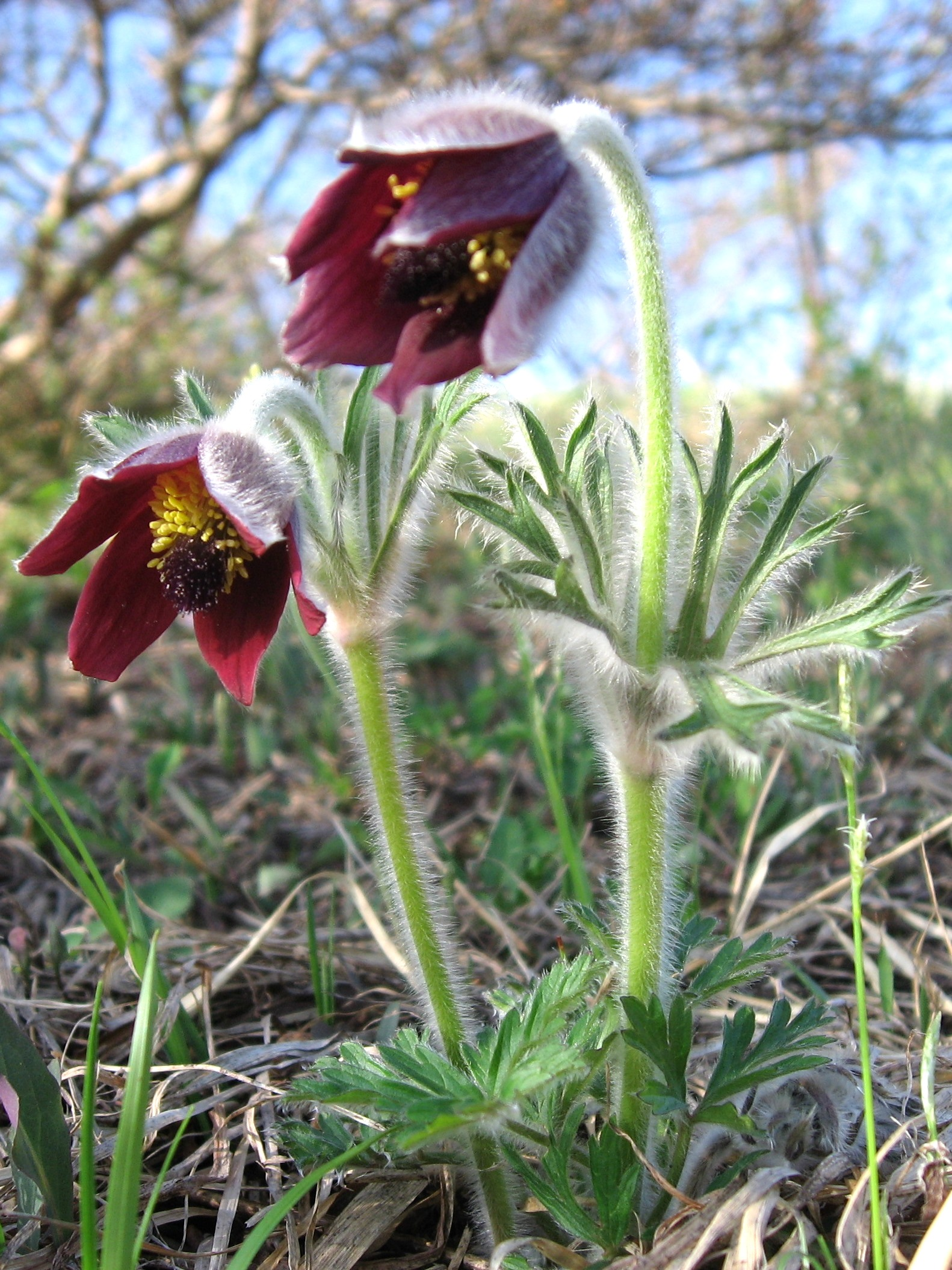 Pulsatilla cernua, Aizu area, Fukushima pref., Japan